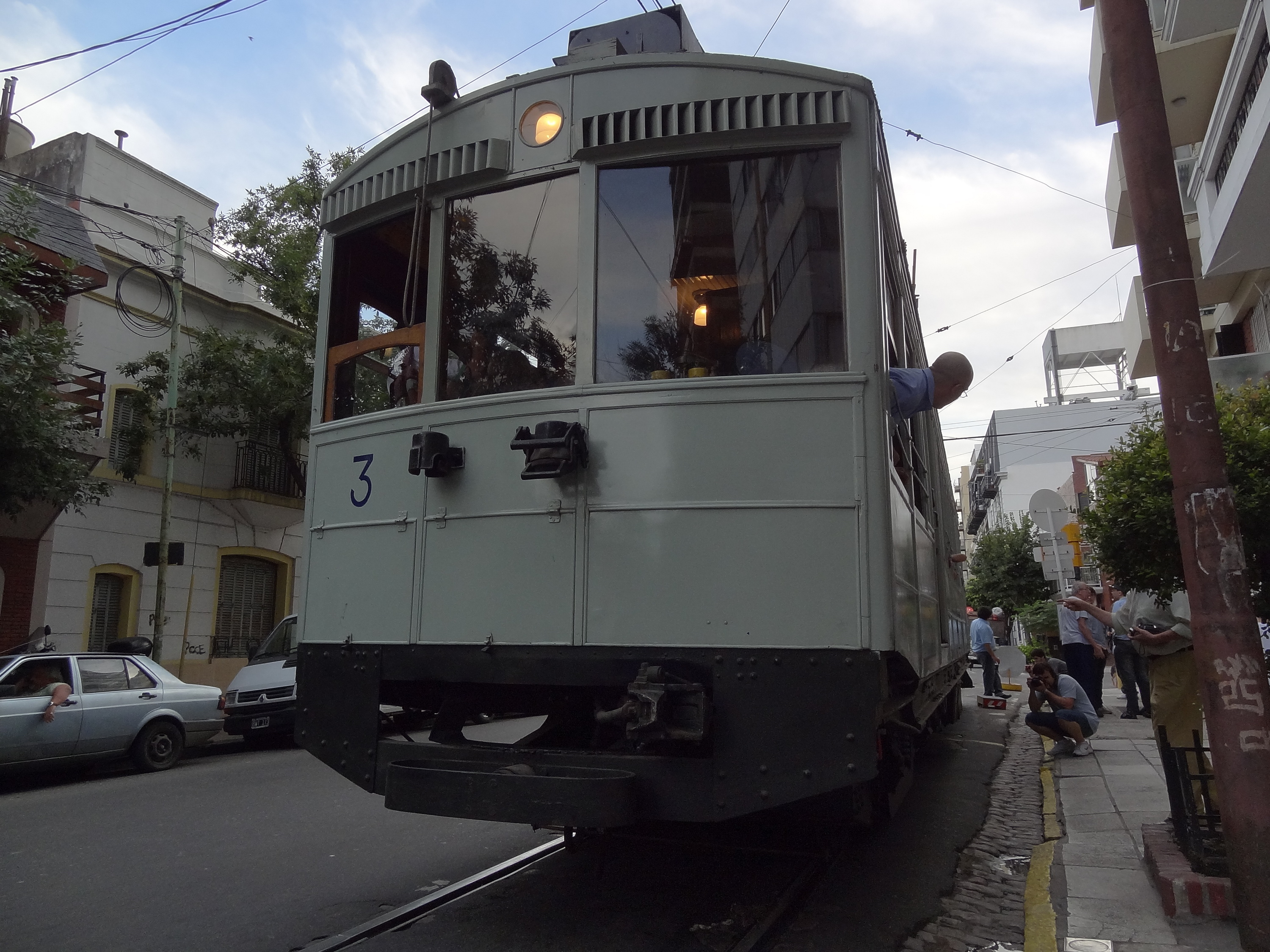 A UEC Preton car belonging to the Association of Friends of the Tramway in Buenos Aires, formerly of the Anglo-Argentine Tramways Company and Line A of the Buenos Aires Underground.